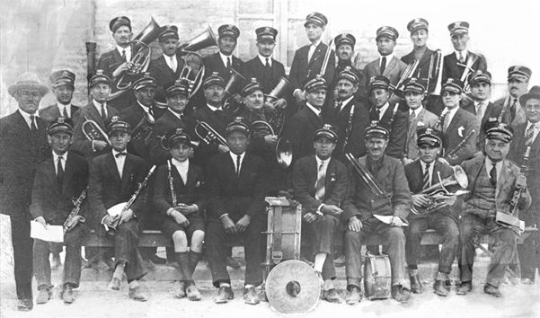 Italy. Corpo Bandistico di Castelferretti, 1925